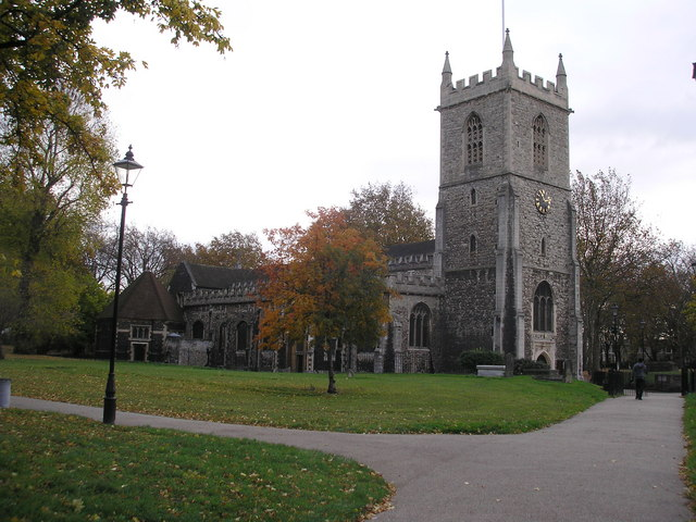 St Dunstan's parish church, Stepney, London E1, seen from the northwest